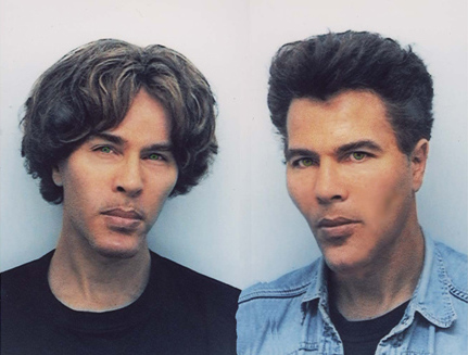 Igor and Grichka Bogdanov in the 1990's